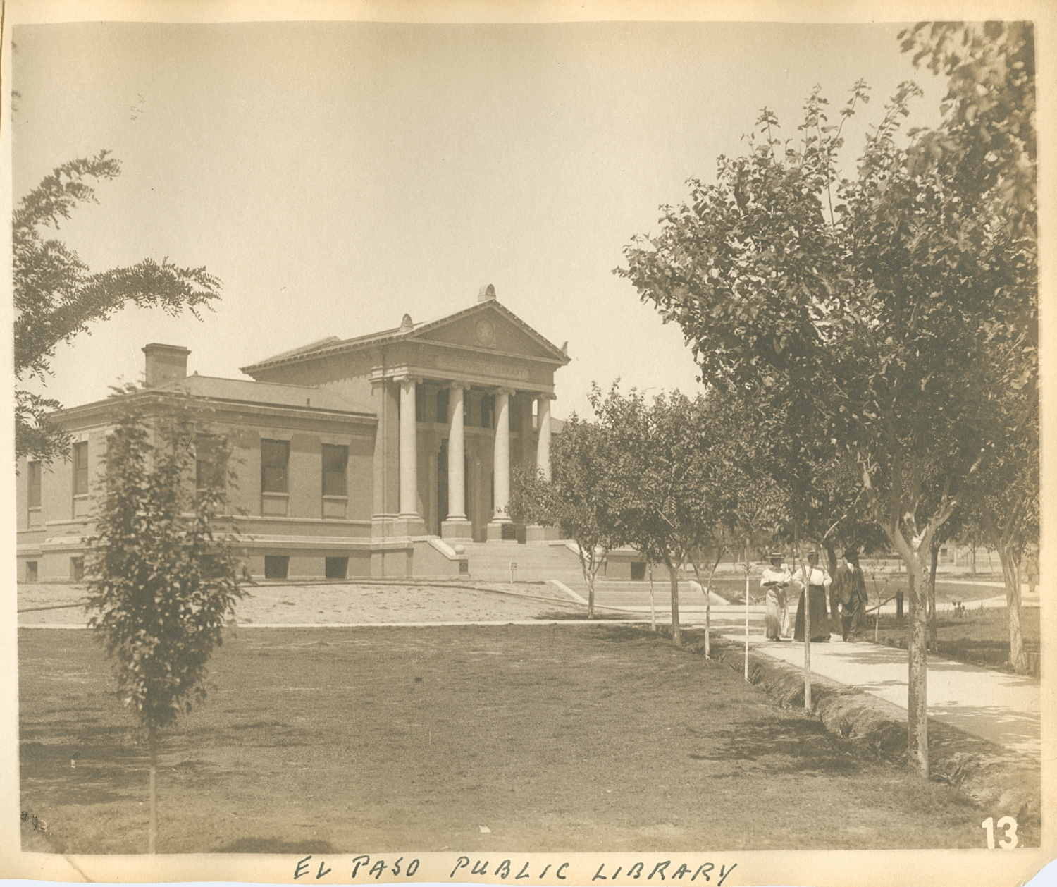 The original El Paso Public Library Building as funded by Andrew Carnegie in 1904.